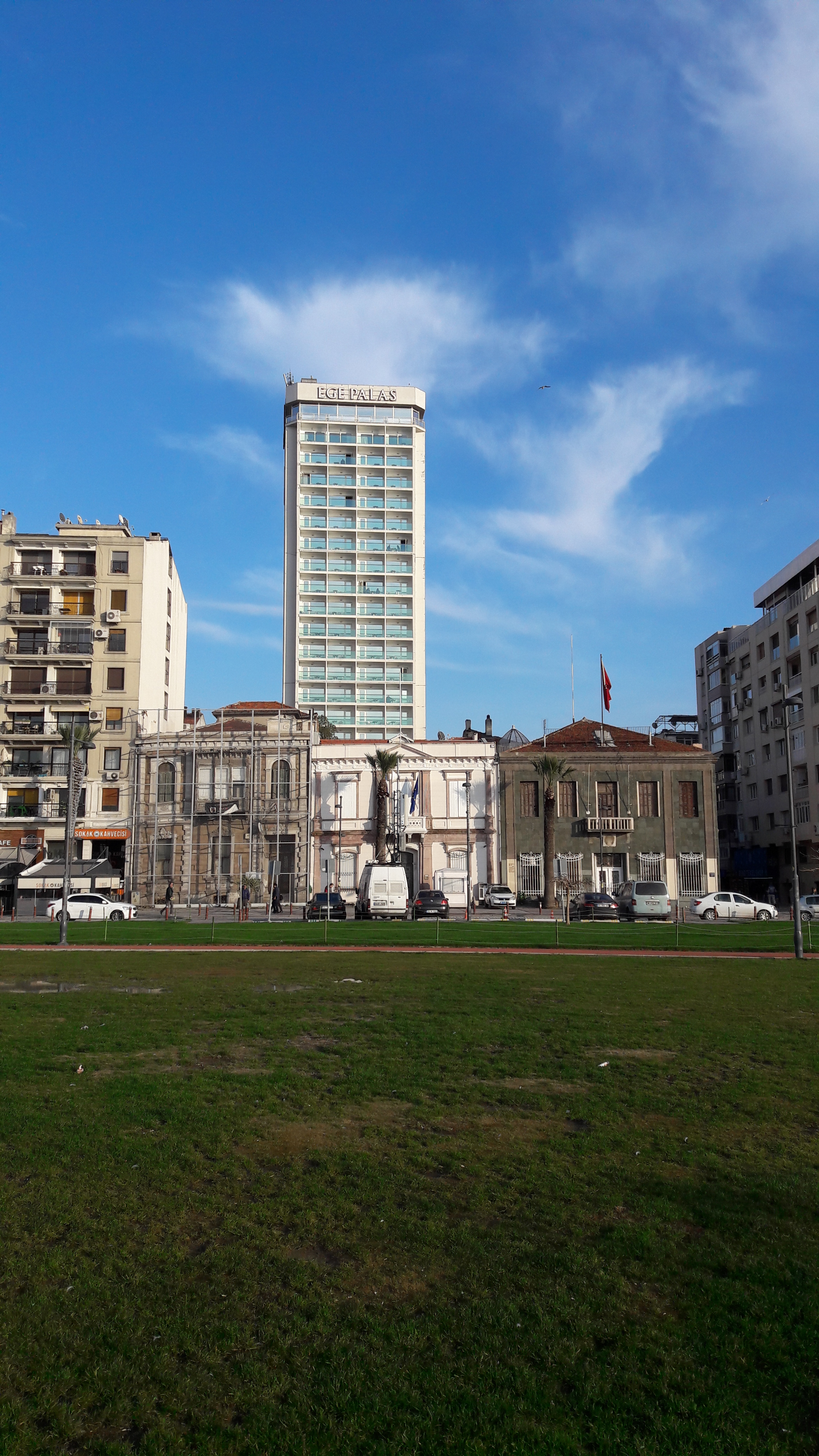 The Ege Palas Hotel.